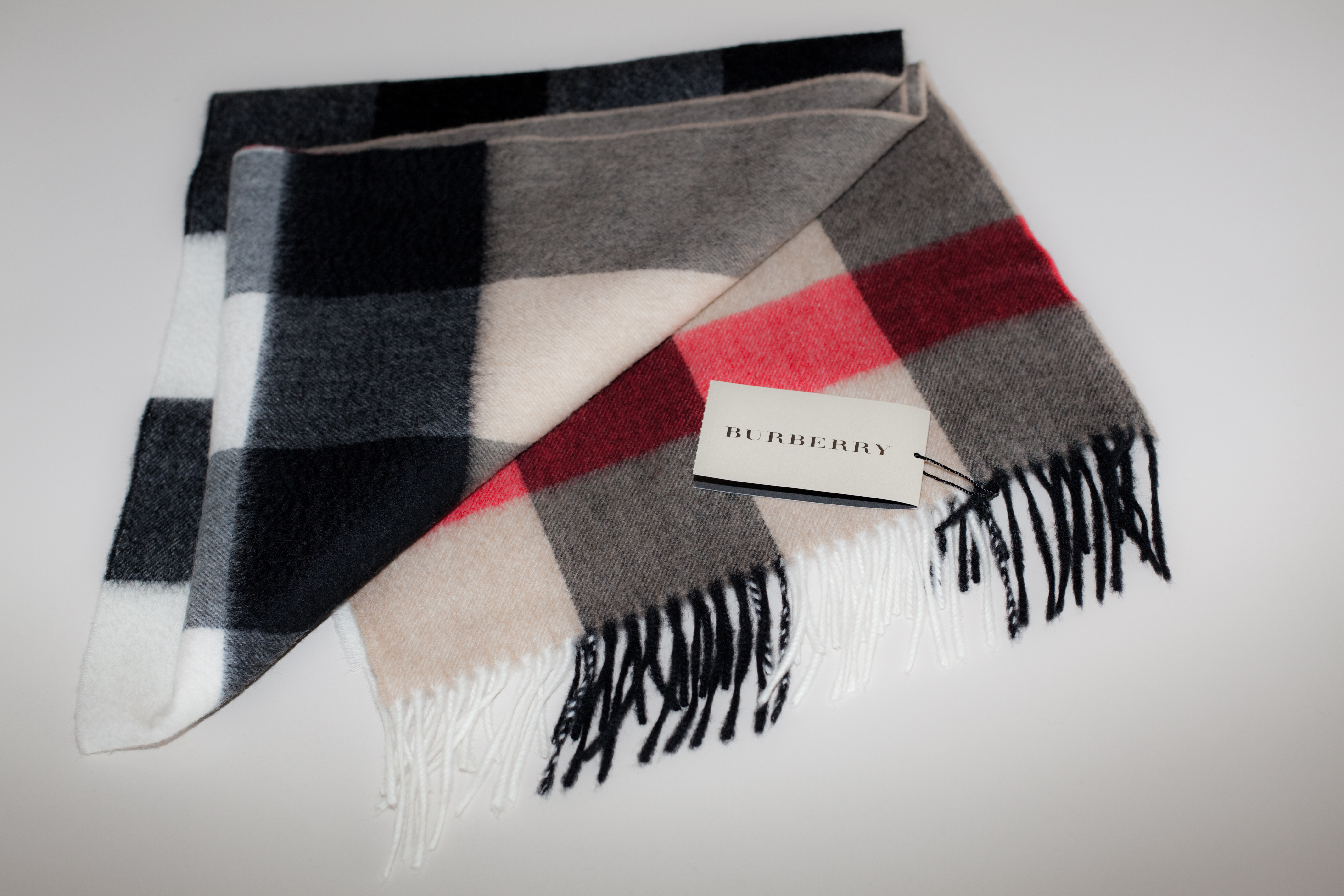 Burberry scarf with check pattern